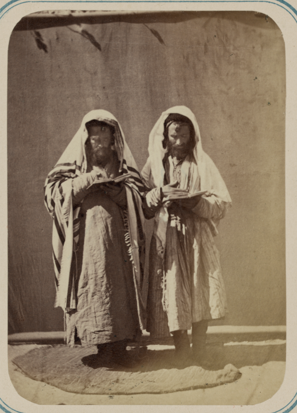 This photograph is from the ethnographical part of Turkestan Album, a comprehensive visual survey of Central Asia undertaken after imperial Russia assumed control of the region in the 1860s. Commissioned by General Konstantin Petrovich von Kaufman (1818–82), the first governor-general of Russian Turkestan, the album is in four parts spanning six volumes: “Archaeological Part” (two volumes); “Ethnographic Part” (two volumes); “Trades Part” (one volume); and “Historical Part” (one volume). The principal compiler was Russian Orientalist Aleksandr L. Kun, who was assisted by Nikolai V. Bogaevskii. The album contains some 1,200 photographs, along with architectural plans, watercolor drawings, and maps. The “Ethnographic Part” includes 491 individual photographs on 163 plates. The photographs show individuals representing the different peoples of the region (Plates 1–33); daily life and rituals (Plates 34–91); and views of villages and cities, street vendors, and commercial activities (Plates 92–163). Ethnographic photographs; Group portraits; Jews; Photographic surveys; Portrait photographs; Psalms; Reading